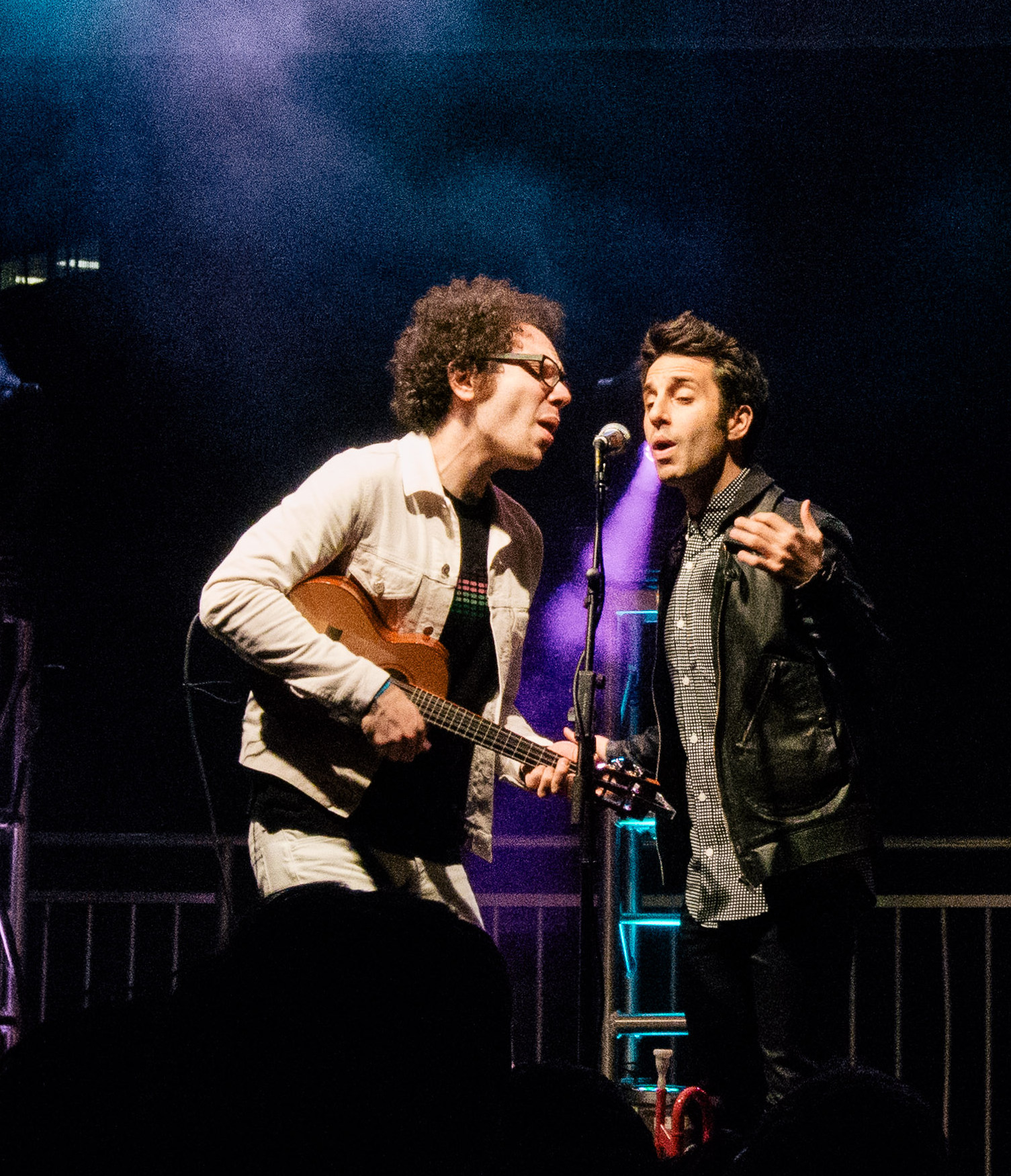 American duo A Great Big World performing live